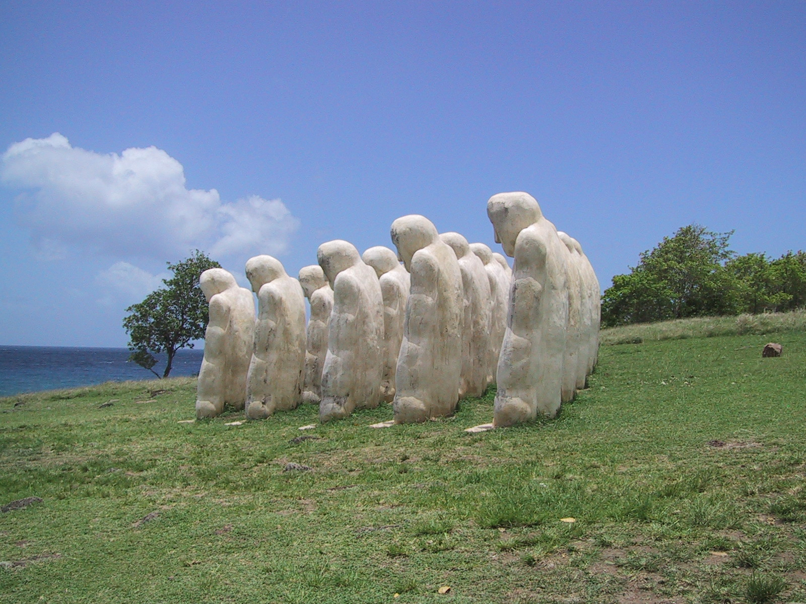 slavery memorial in Martinique.